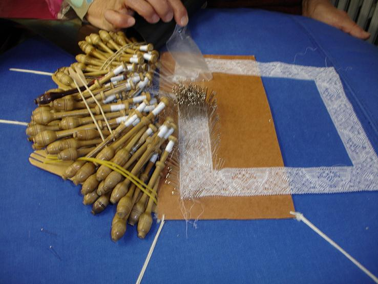 lace